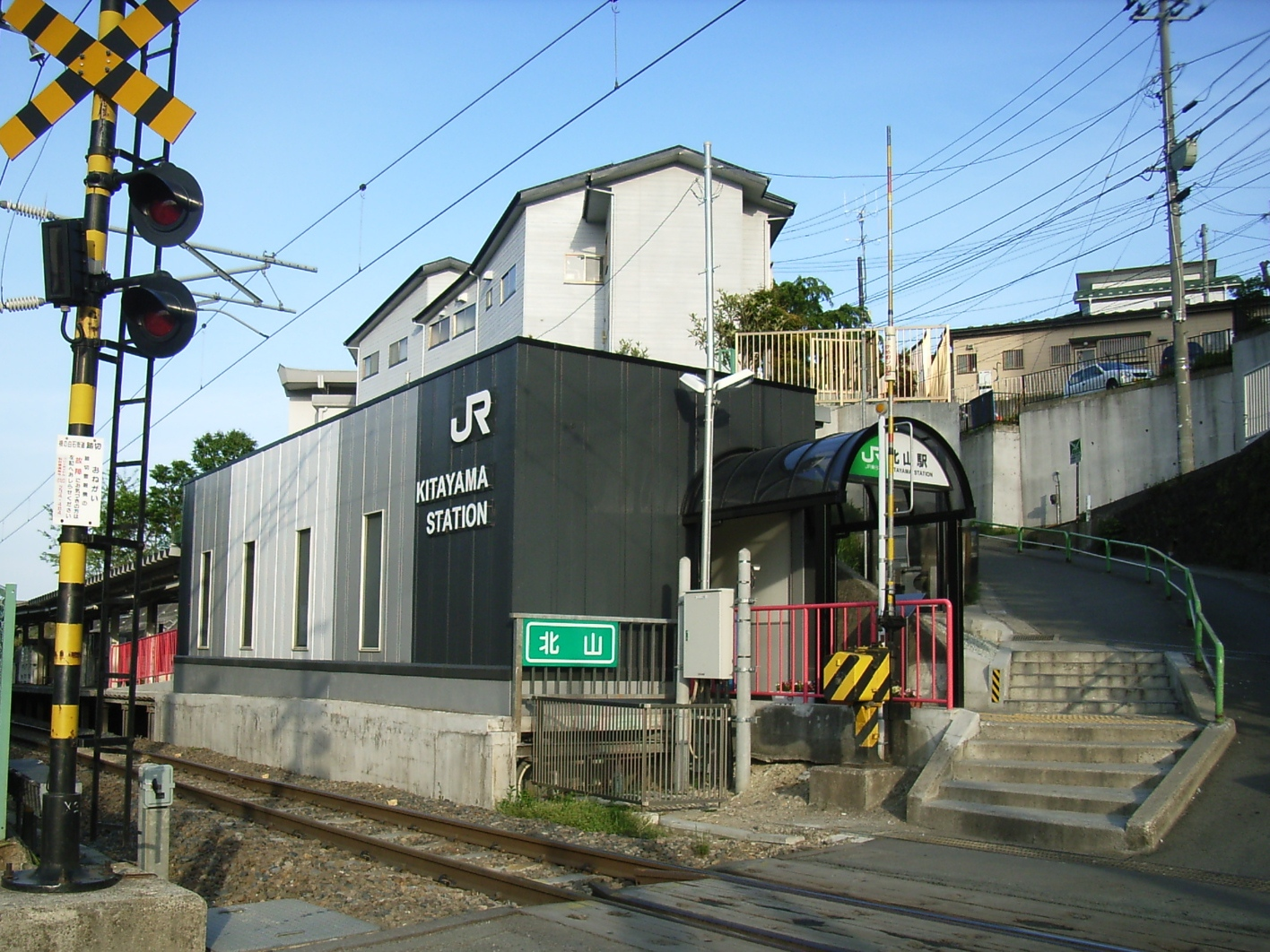 Kitayama Station of the Senzan Line. Sendai, Miyagi prefecture, Japan.